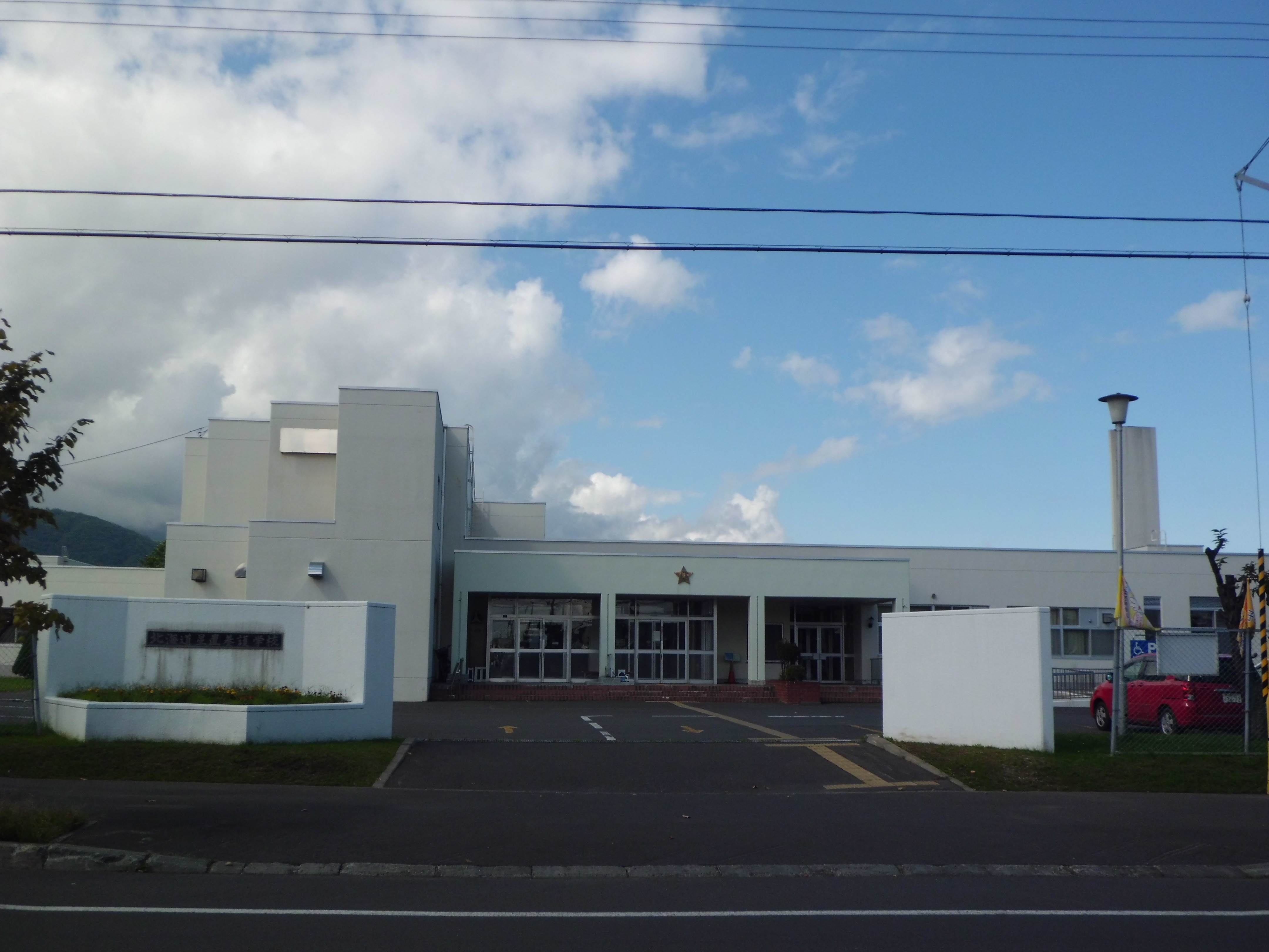 Hokkaido Hoshioki School for Special Needs